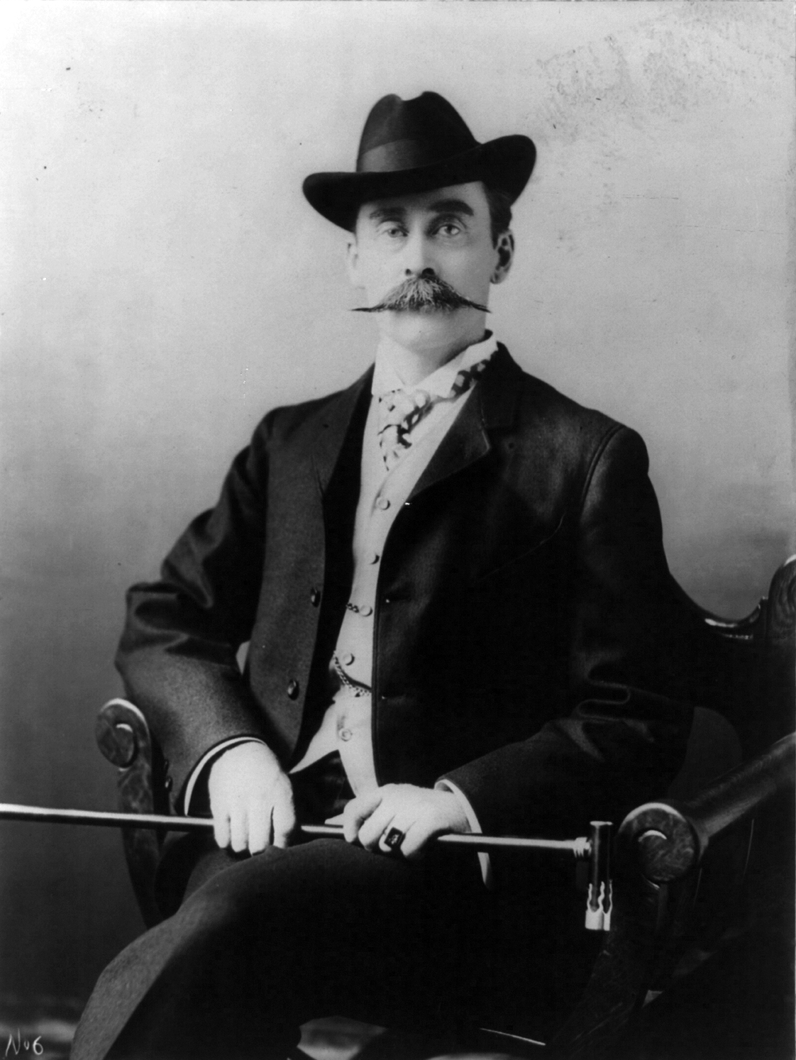 Robert Peary, seated, wearing cowboy hat and holding cane across lap.